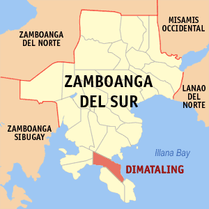 Map of Zamboanga del Sur showing the location of Dimataling